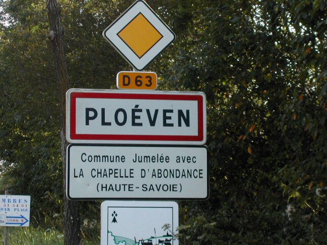 Roadsign of Ploeven.